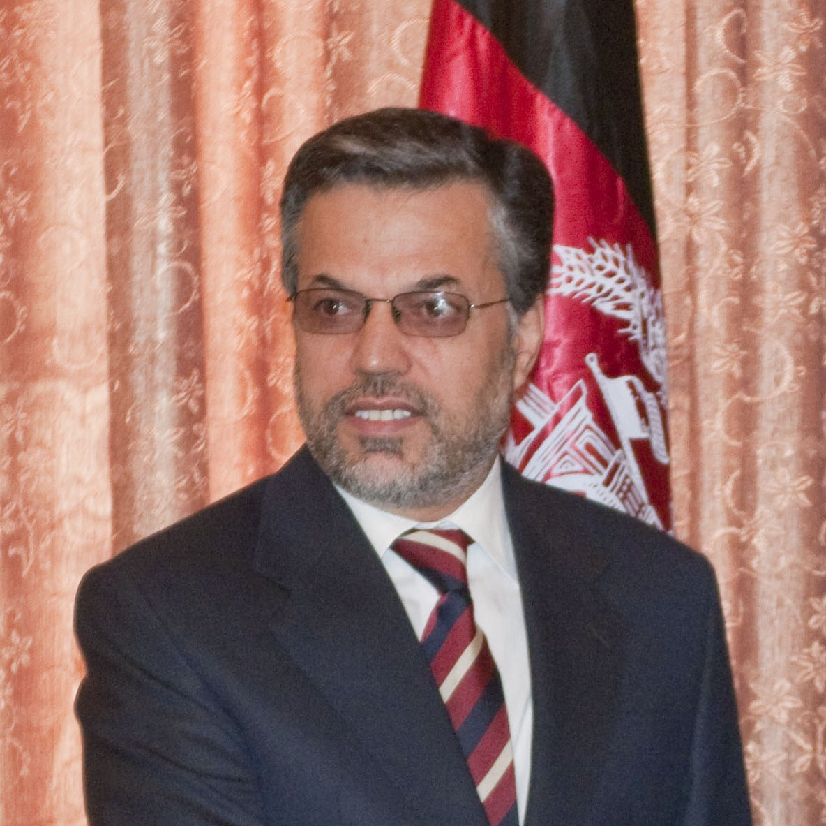 Yunus Qanuni, member of the National Assemly of Afghanistan.